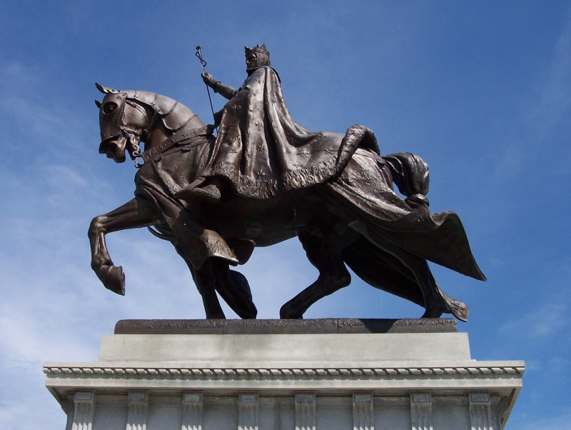 Apotheosis of Saint Louis by Charles Henry Niehaus (1903) Side View This statue of King Louis IX of France, the namesake of St. Louis, Missouri, is located in front of the Saint Louis Art Museum. The image of this statue of the king on a horse was widely used as a graphical symbol of the City of St. Louis. It is sometimes still used as such, though the Gateway Arch has mostly assumed that role. The original plaster model for this statue stood at the entrance to the 1904 Worlds Fair in Forest Park. After the fair the statue was cast in bronze by the Louisiana Purchase Exposition Company and presented to the city as part of the restoration of the park after the fair. The statue was cleaned in 1977 and restored in 1999. The inverted sword, held up as a cross, was replaced after being broken or stolen in 1970, 1972, 1977, and 1981.[1]